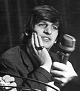 Ringo Starr at a press conference in 1964.